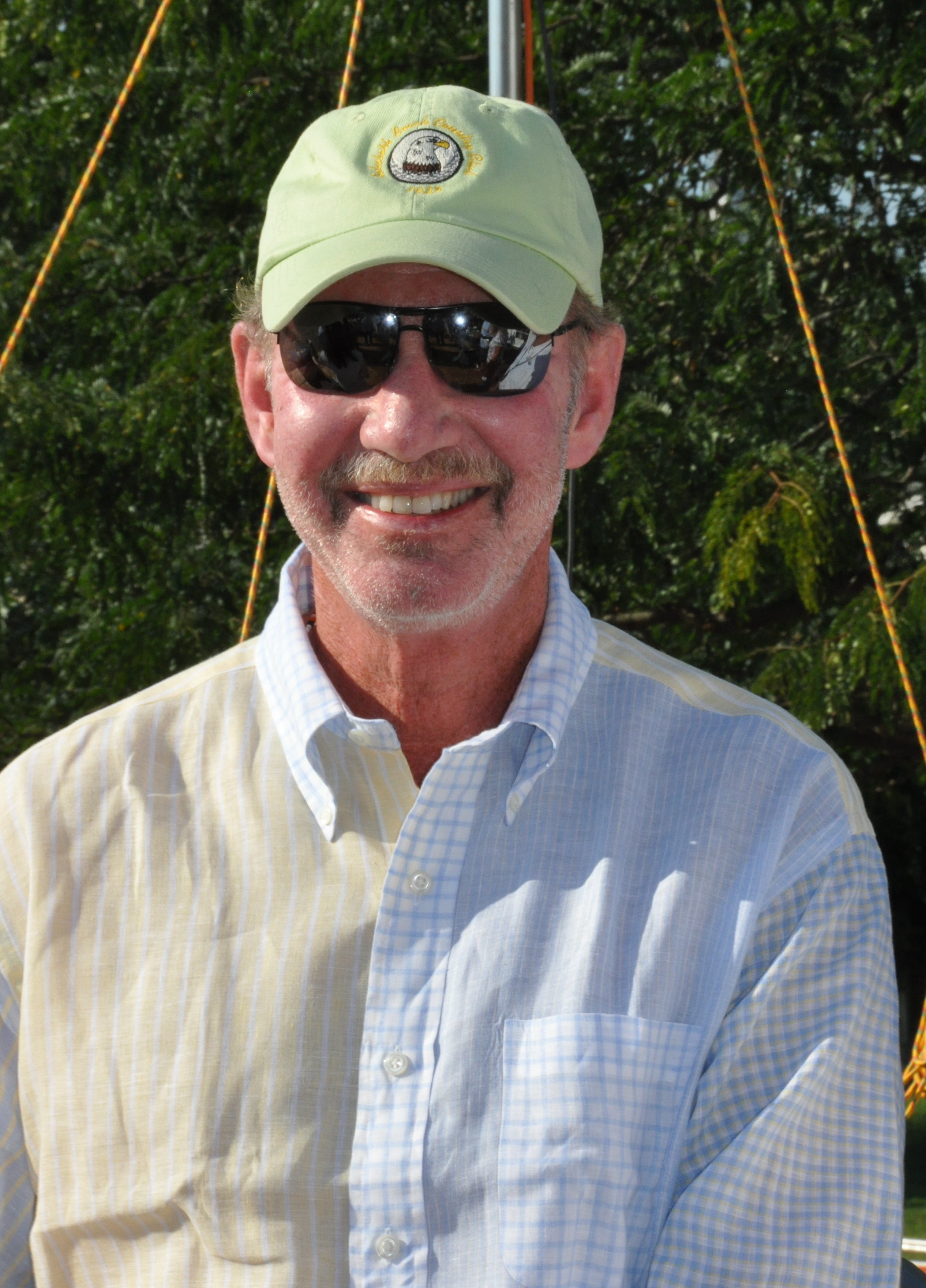 Tony Kornheiser was a celebrity judge for the "Construction Throw Down" VIP Event during the Extreme Makeover: Home Edition build by Schell Brothers in Sussex County Delaware for the Dunning family.